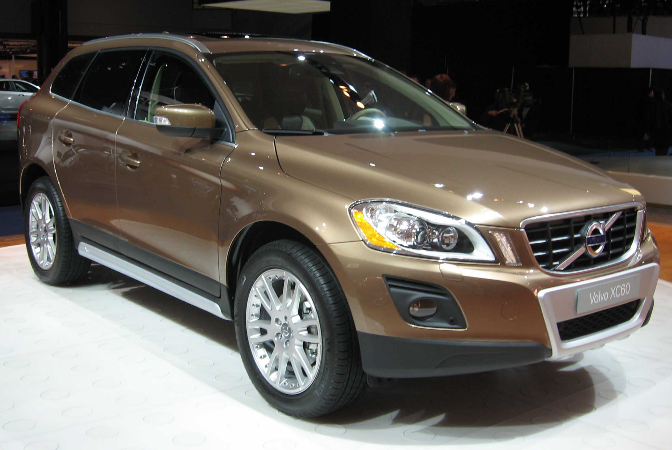 2009 Volvo XC60 photographed at the 2008 New York Auto Show.